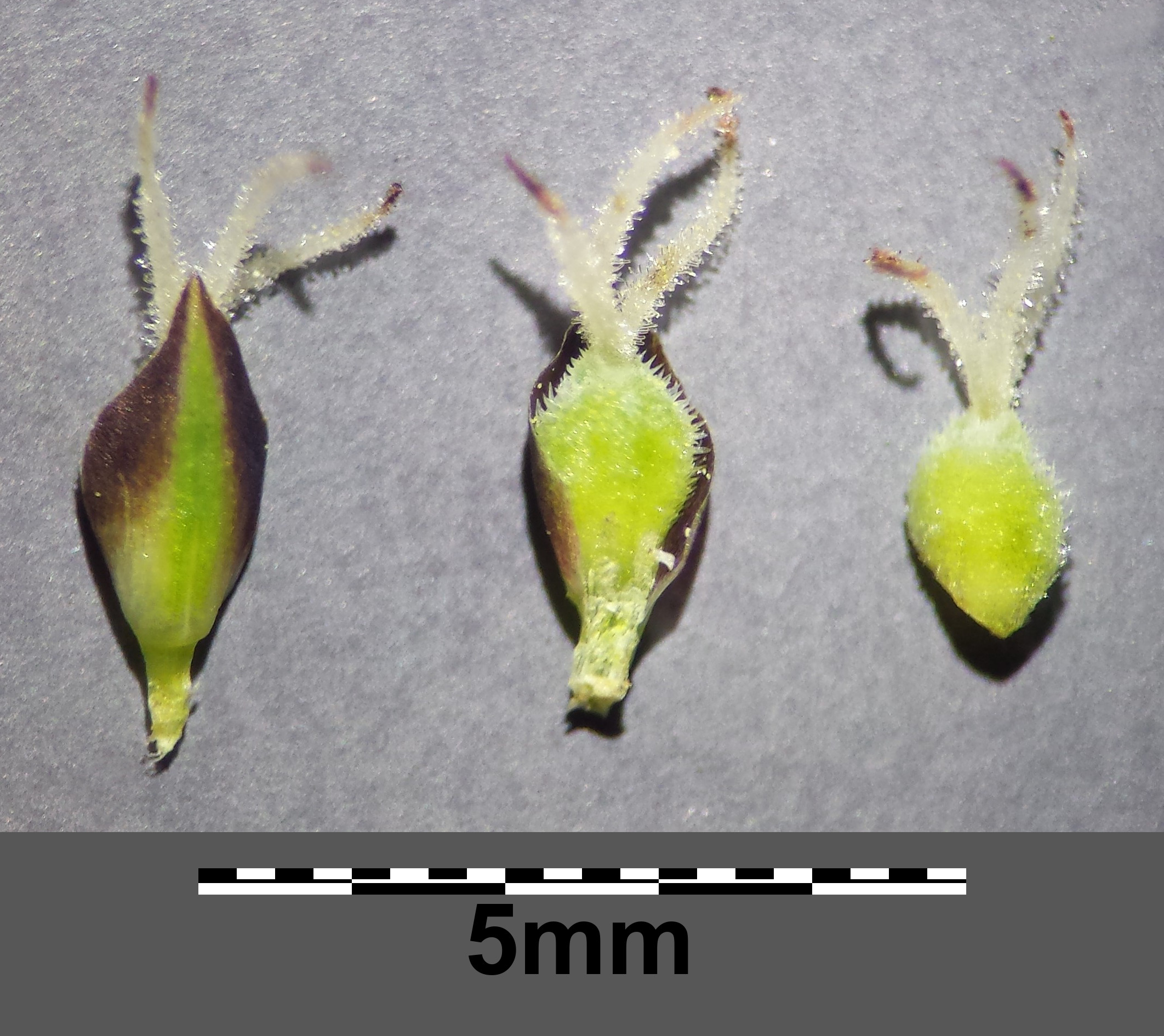 Utricle with glume Taxonym: Carex tomentosa ss Fischer et al. EfÖLS 2008 ISBN 978-3-85474-187-9 Location: Dernberg, Nappersdorf-Kammersdorf, district Hollabrunn, Lower Austria - ca. 260 m ü. A. Habitat: semi-dry grassland